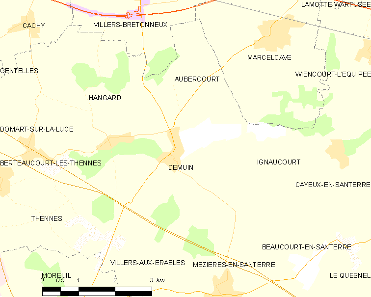 Map of French municipality Démuin